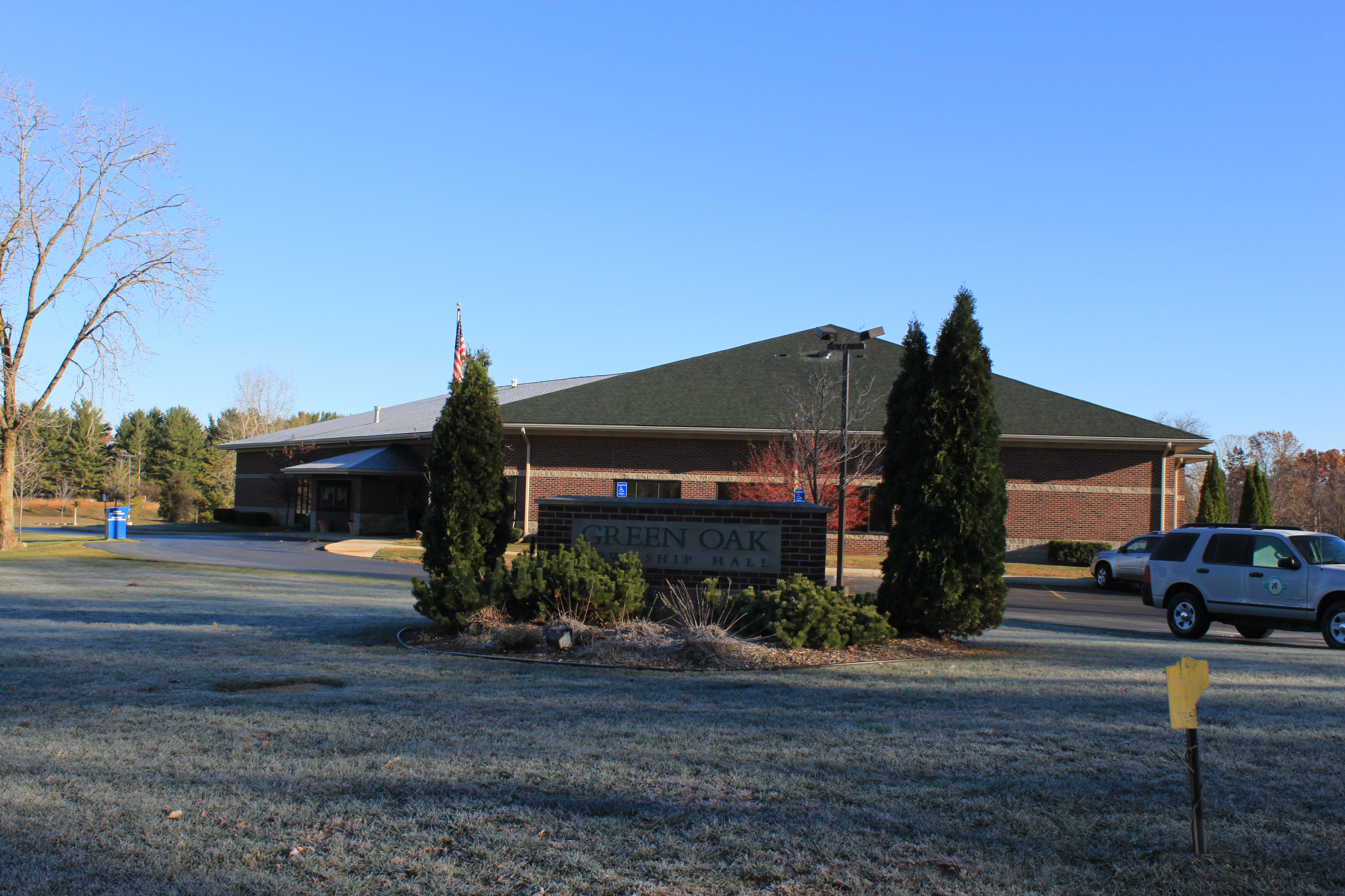 Green Oak Township Michigan, Township Hall, 10001 Silver Lake Road